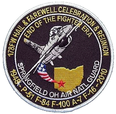 178th Fighter Wing Retirement patch.